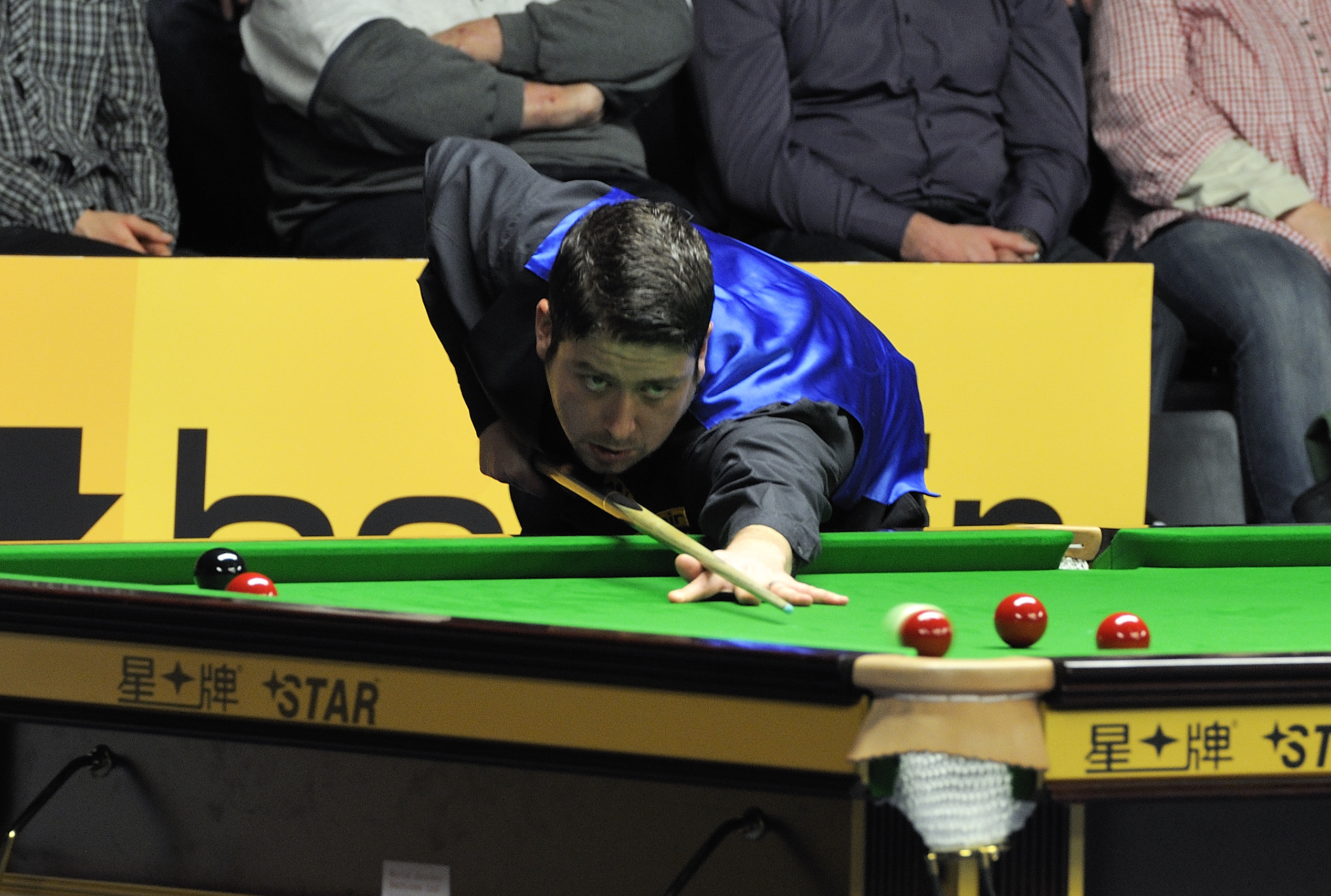 Picture taken in Berlin during the Snooker German Masters in 2013. Matthew Stevens.